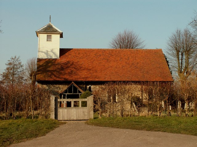 St. James the Less church, Little Tey, Essex. Little Tey church stands at the end of a dead-end lane close to a small duck pond. The church dates back to Norman times and inside there are some very interesting wall paintings that were a fairly recent discovery. It is unusual that the nave and chancel are joined as one size.